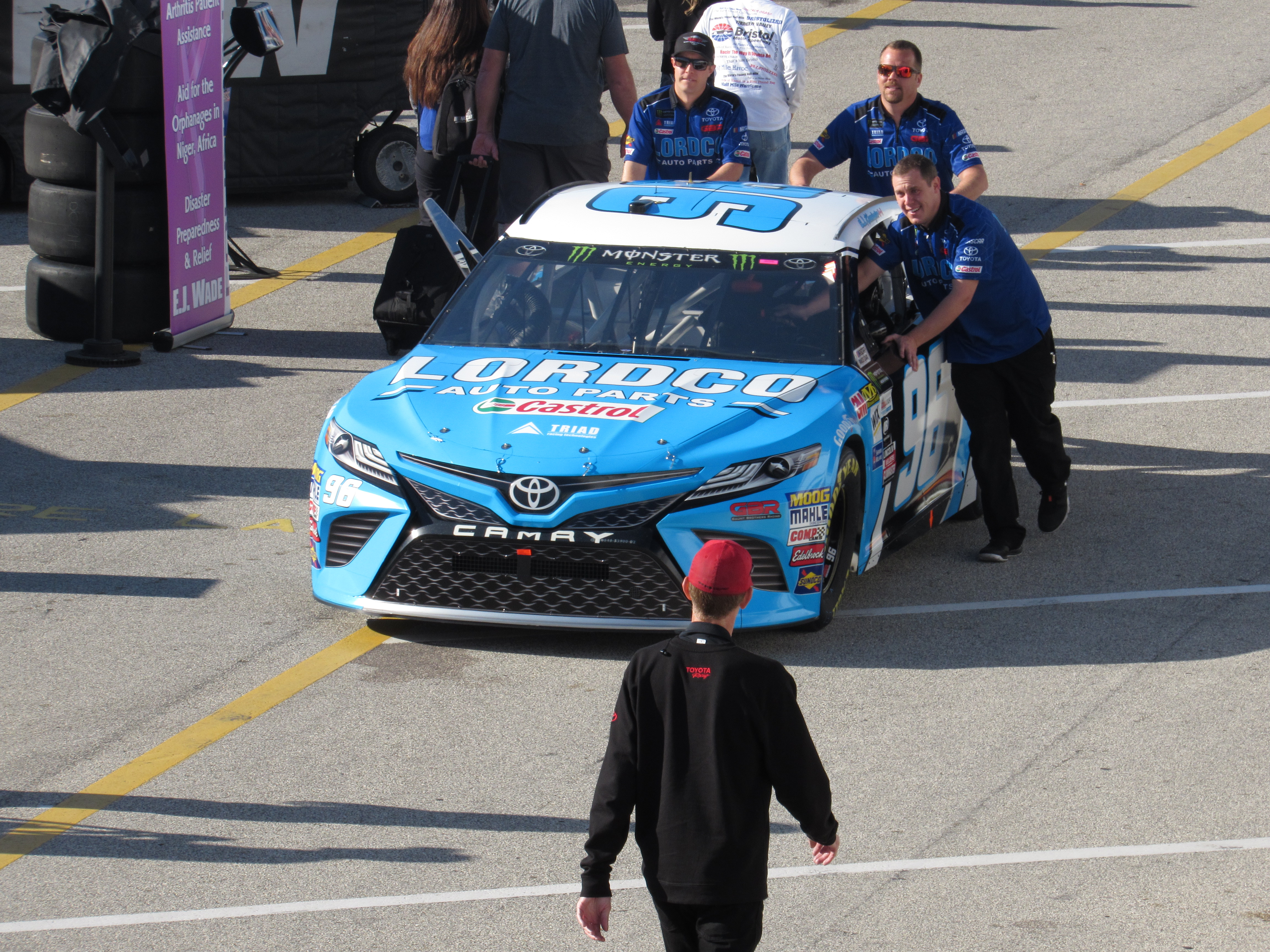 DJ Kennington's car being pushed through the Garage Area at Daytona International Speedway.